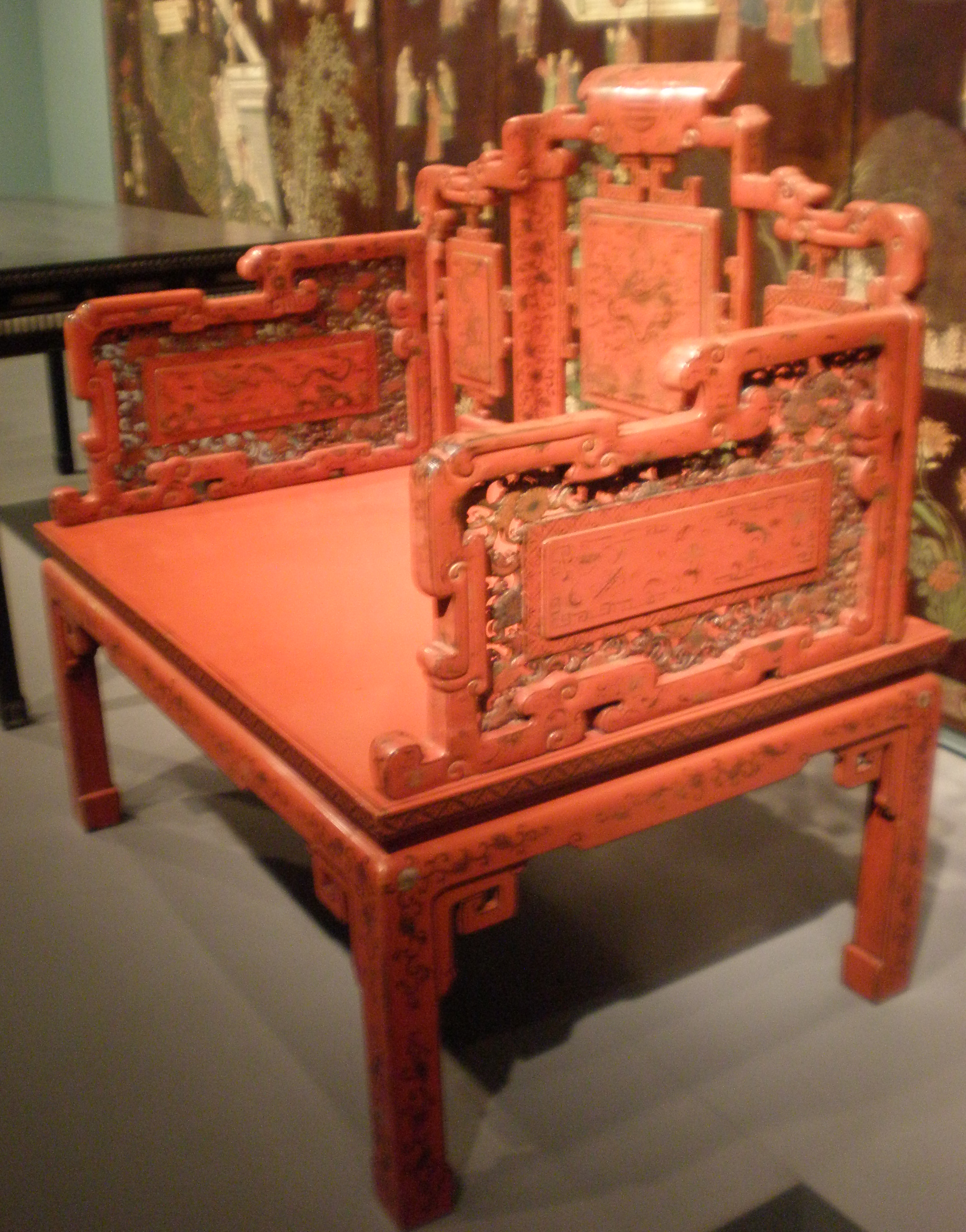 Lacquered wood throne likely used by a member of the imperial family (1800-80) on display at the Asian Art Museum in San Francisco, California. B61M15+